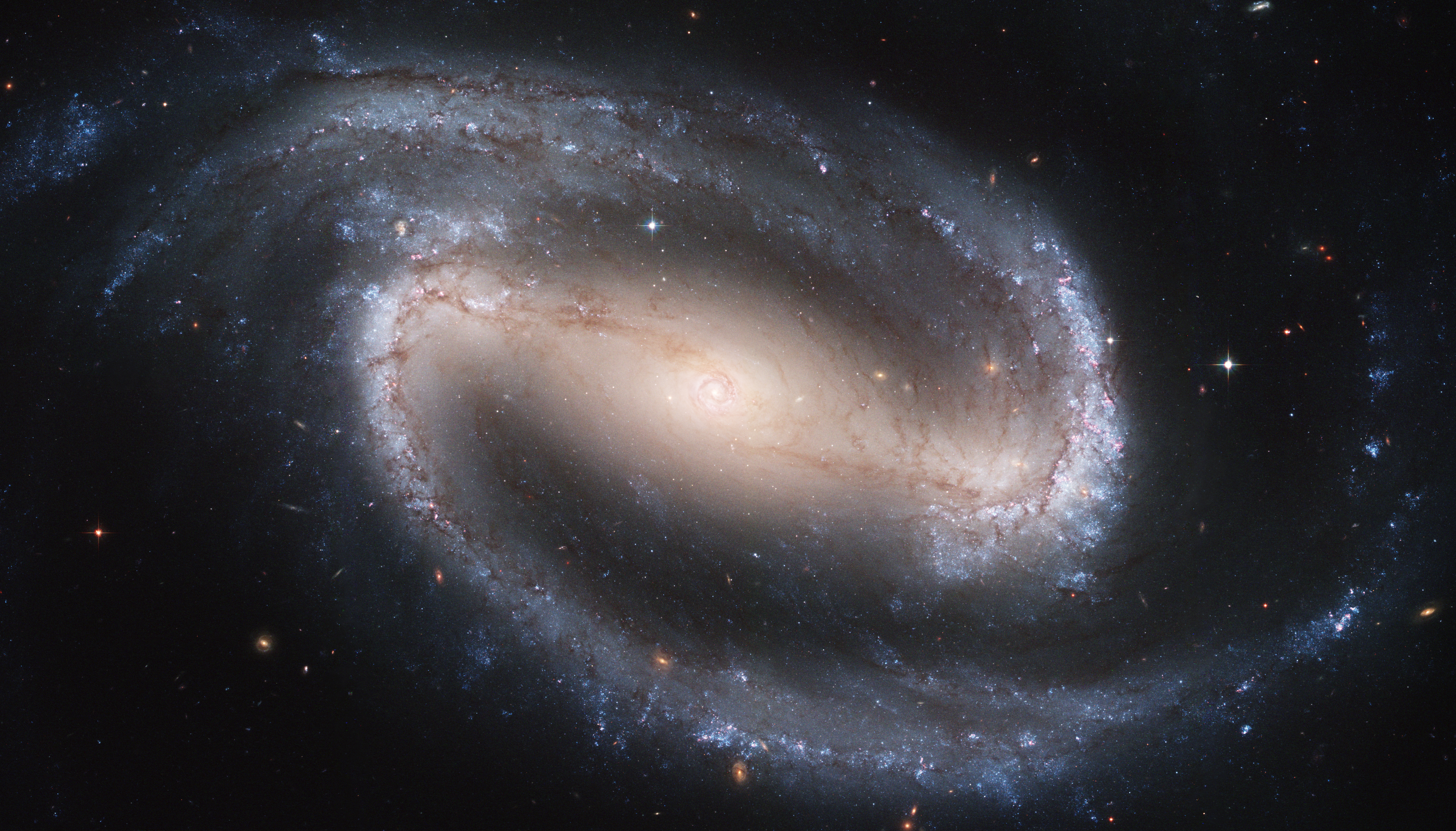 Barred spiral galaxy NGC 1300 photographed by Hubble telescope. In the core of the larger spiral structure of NGC 1300, the nucleus shows its own extraordinary and distinct "grand-design" spiral structure that is about 3,300 light-years (1 kiloparsec) long. Only galaxies with large-scale bars appear to have these grand-design inner disks — a spiral within a spiral. Models suggest that the gas in a bar can be funneled inwards, and then spiral into the center through the grand-design disk, where it can potentially fuel a central black hole. NGC 1300 is not known to have an active nucleus, however, indicating either that there is no black hole, or that it is not accreting matter. The image was constructed from exposures taken in September 2004 by the Advanced Camera for Surveys onboard Hubble in four filters. Starlight and dust are seen in blue, visible, and infrared light. Bright star clusters are highlighted in red by their associated emission from glowing hydrogen gas. Due to the galaxy's large size, two adjacent pointings of the telescope were necessary to cover the extent of the spiral arms. The galaxy lies roughly 69 million light-years away (21 megaparsecs) in the direction of the constellation Eridanus.